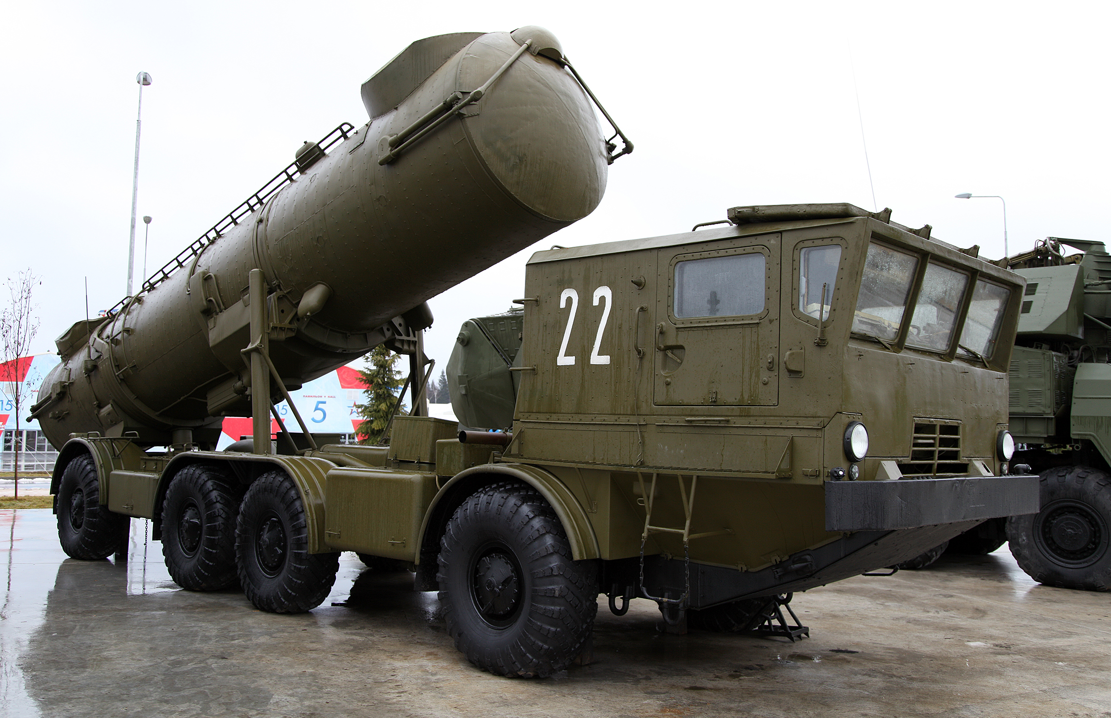 Transporter erector launcher of Redut coastal missile system